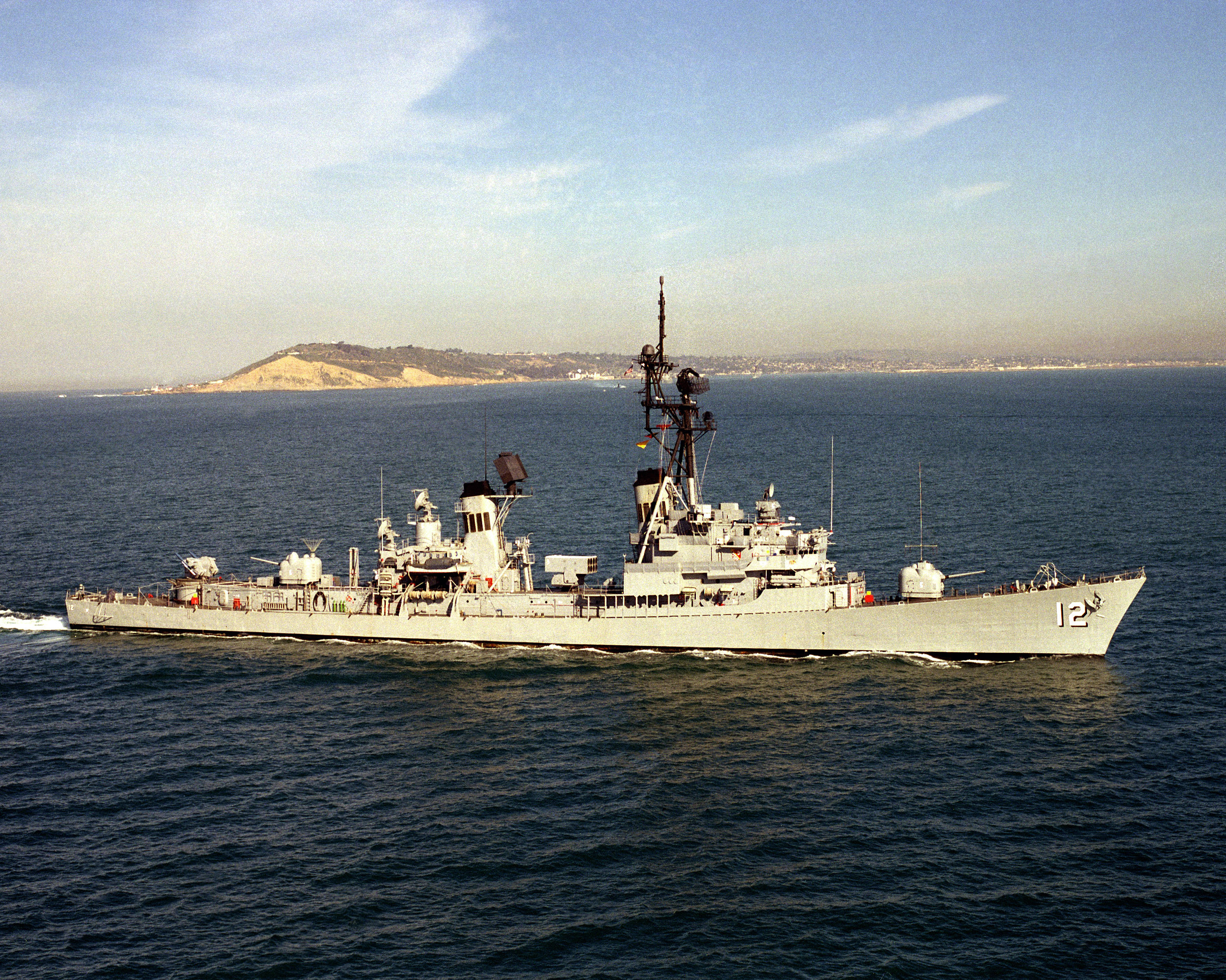 The U.S. Navy the guided missile destroyer USS Robison (DDG-12) underway off San Diego, California (USA), on 1 February 1986.